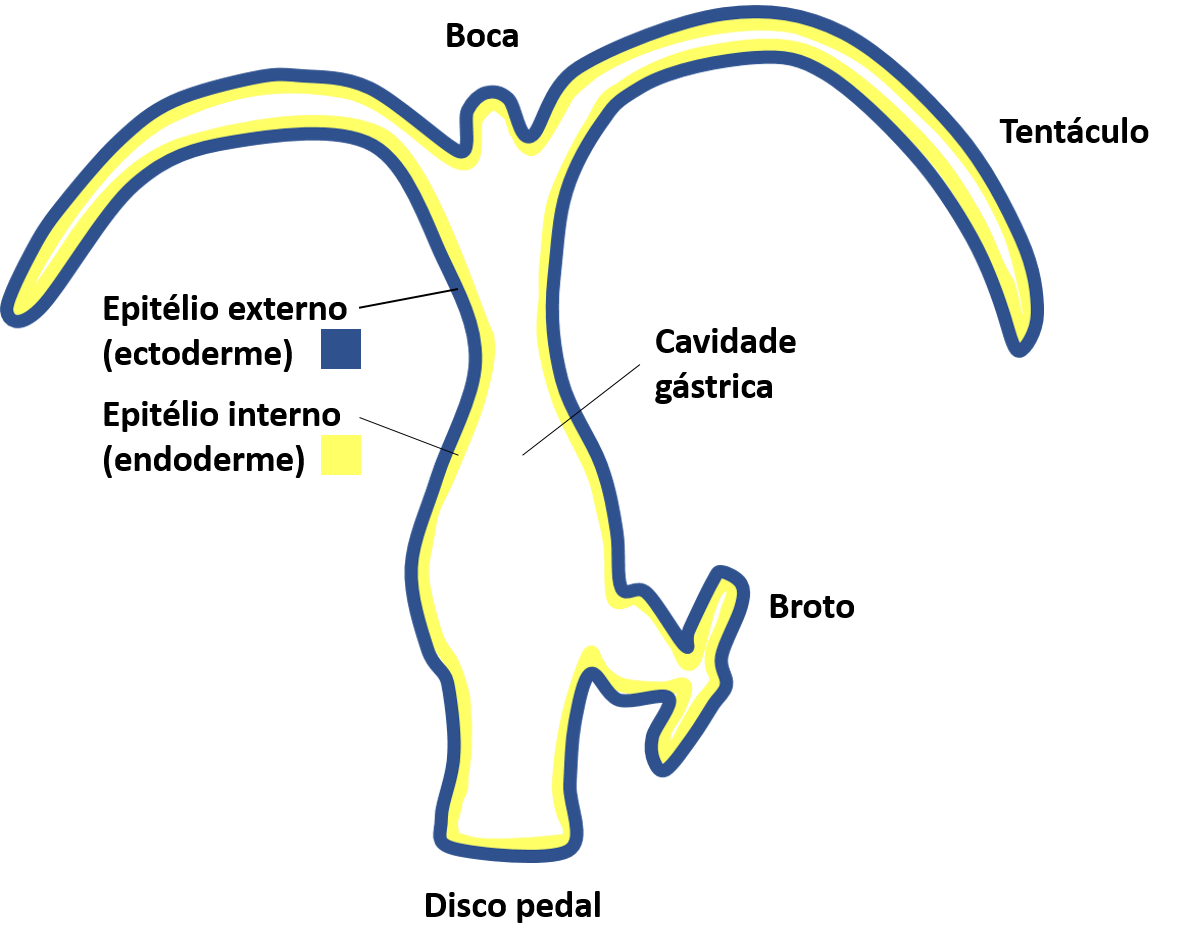 Scheme of the basic body organisation of the Hydra and its germ layers